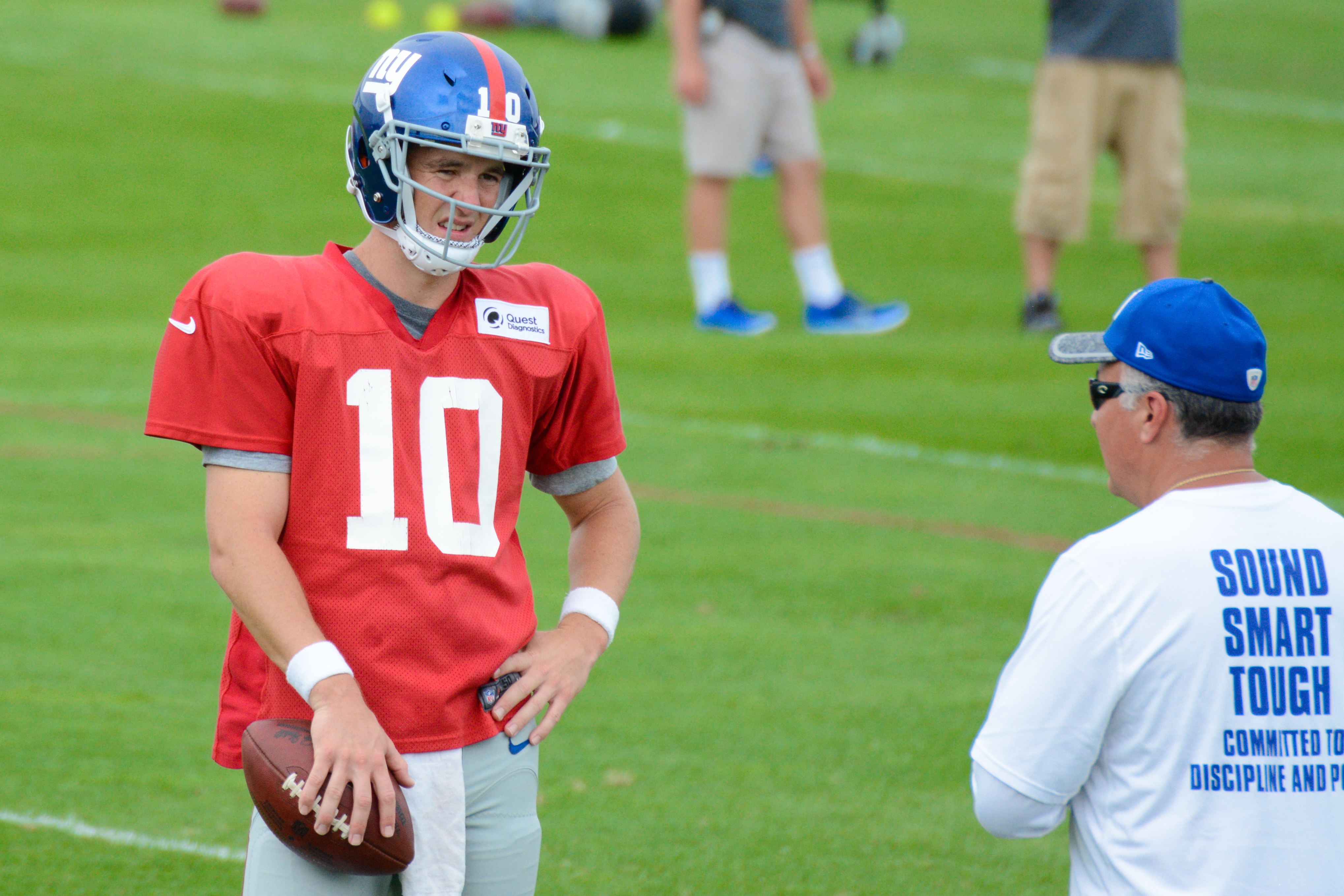 New York Giants training camp